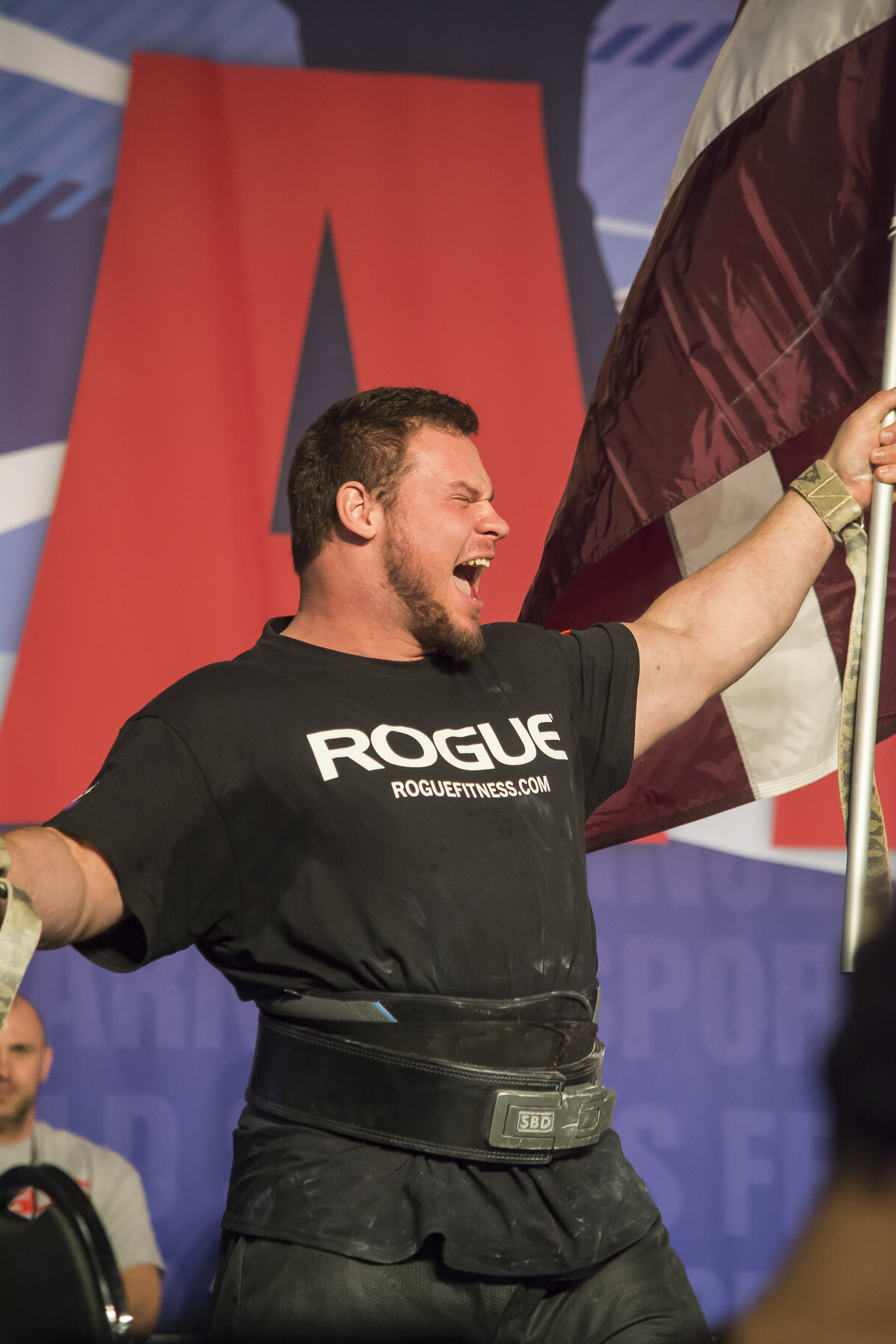 Aronald Classic Coulumbus, Ohio USA 2017